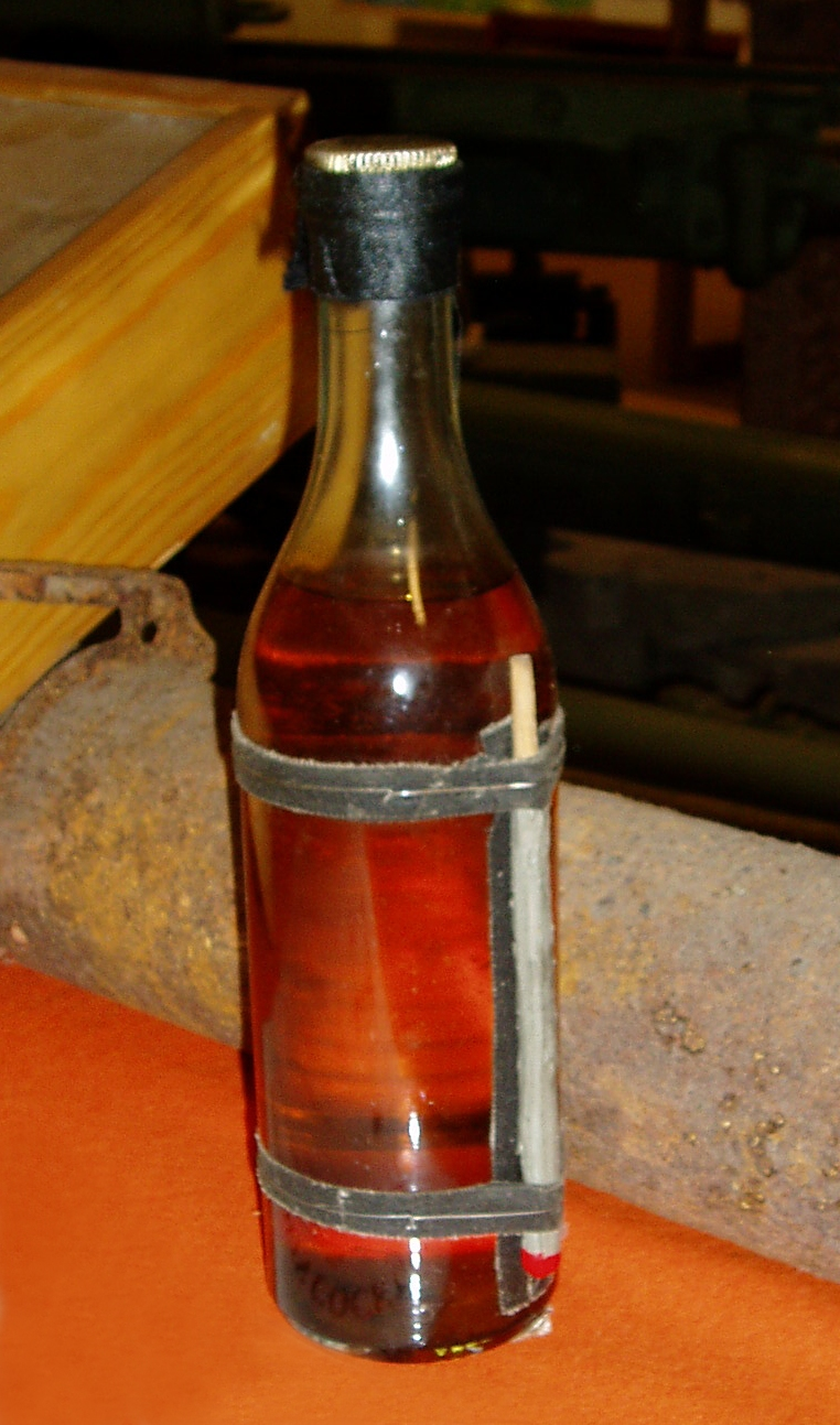 Molotow cocktail, Finland, winter war, liquid fuel bottle as anti-tank weapon, fixed storm match as ignitor.